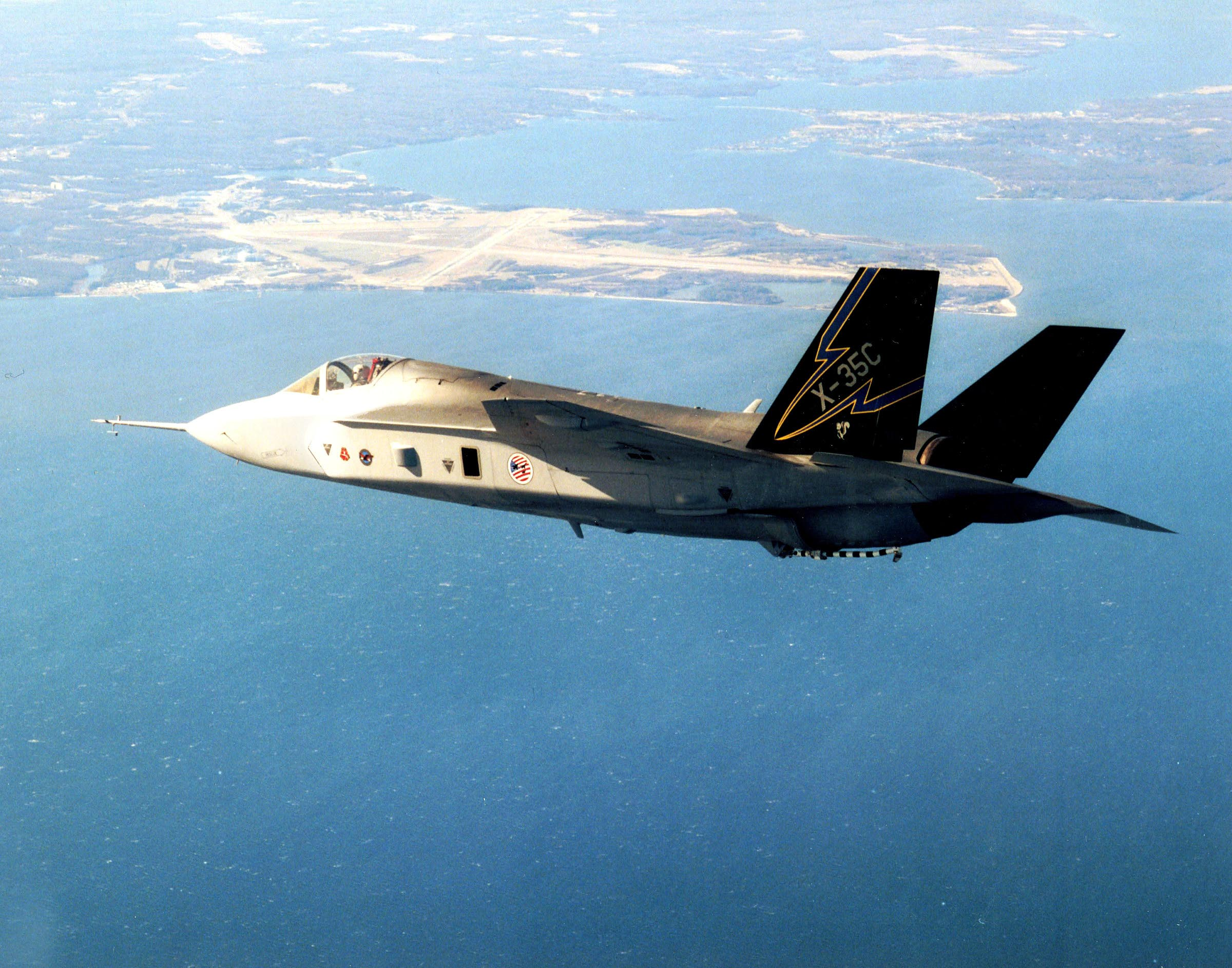 010210-N-0000P-001 Naval Air Station, Patuxent River, Md. (Feb. 10, 2001) -- The naval variant of the Joint Strike Fighter, X-35C, arrives at Naval Air Station Patuxent River, Maryland, flown by U.S. Marine Corps Major Art "Turbo" Tomassetti, a strike test pilot for Lockheed Martin. U.S. Navy photo by Vernon Pugh (RELEASED)